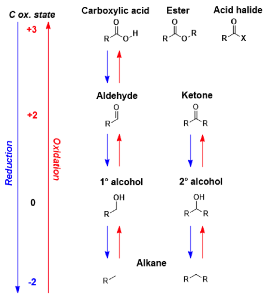 Redox ladder